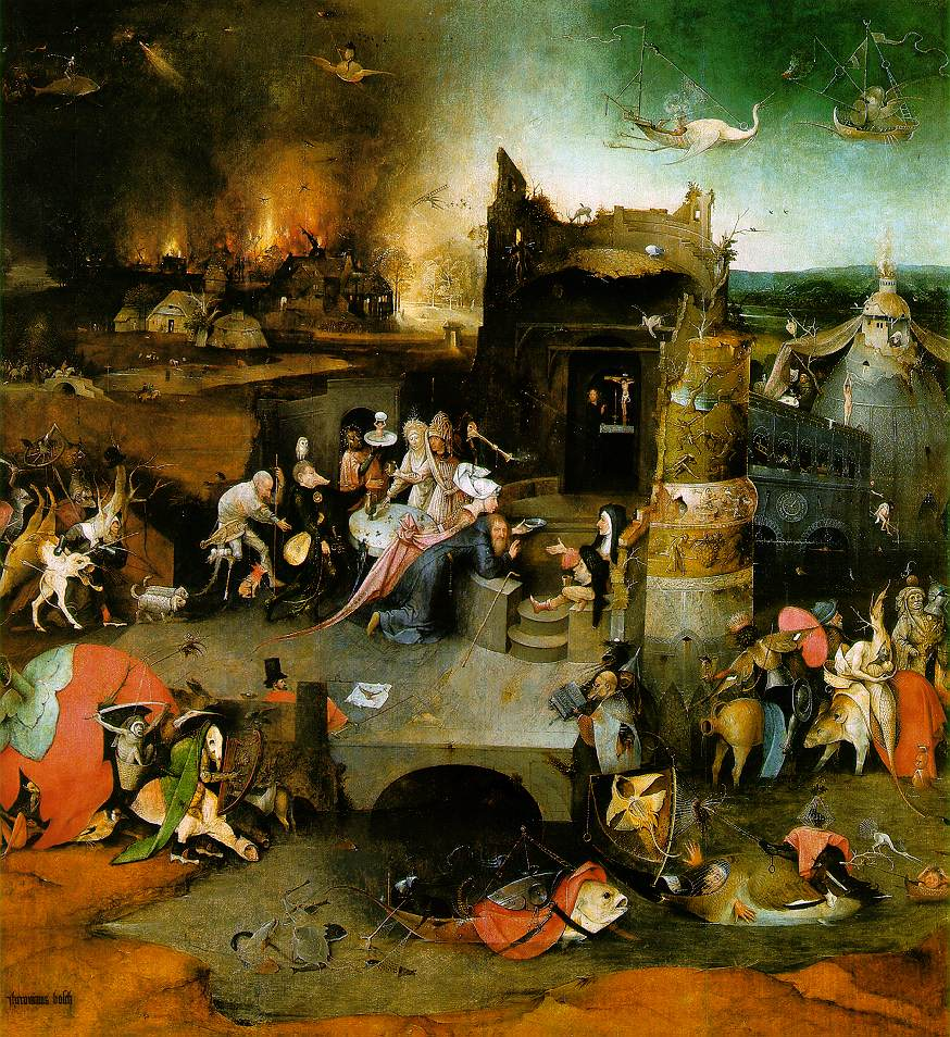 Central panel of a triptych depicting The Temptation of Saint Anthony. The central figure of this painting, Saint Anthony in his blue monk's habit, is beset by a large number of demons and devils. He looks in the direction of the viewer while being turned to a crucifix placed inside a tower ruin.